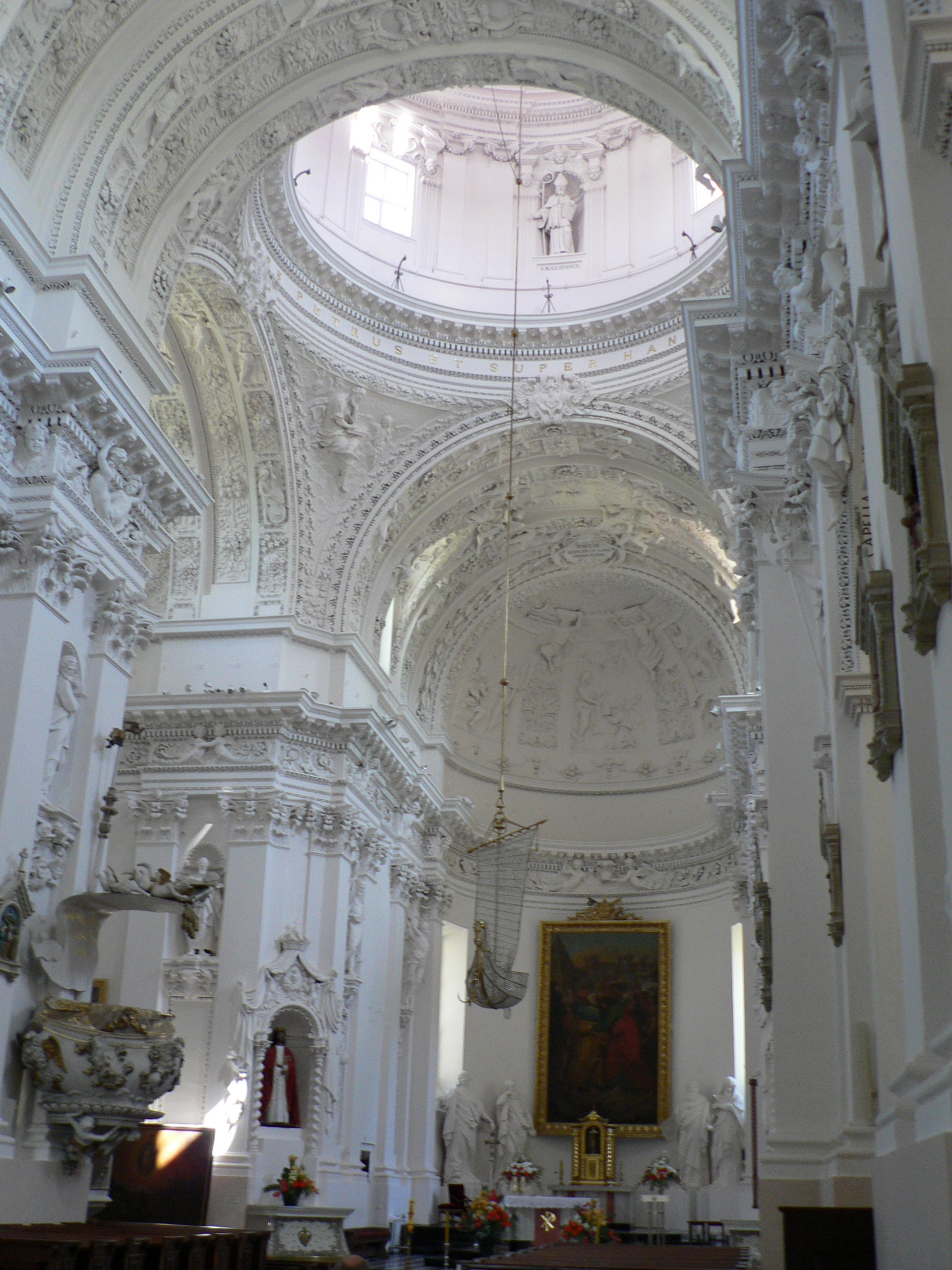 Interior of St. Peter and St. Paul church in Vilnius, Lithuania